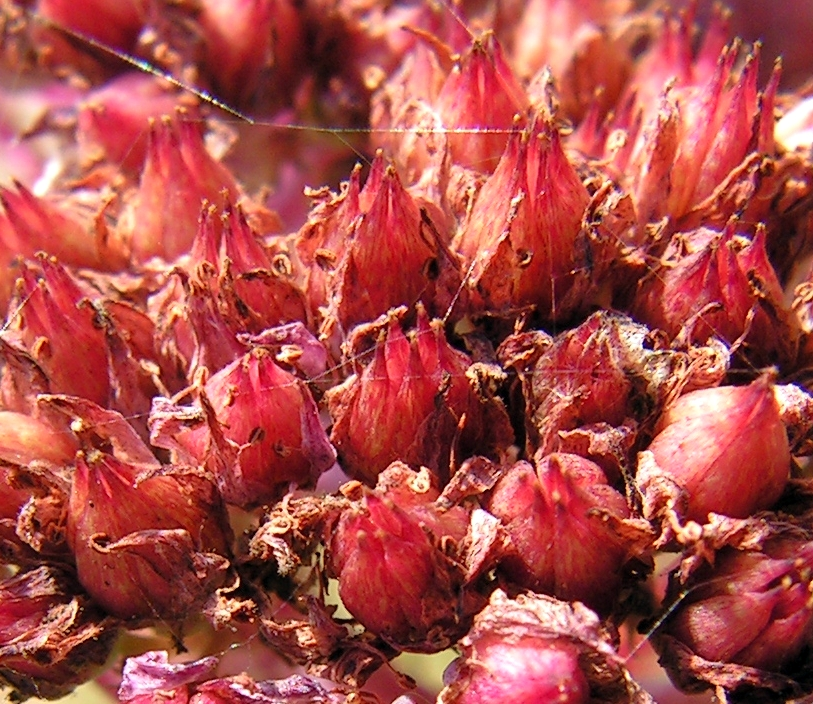 The unripe fruits of Hylotelephium telephium. Moscow region, Russia.